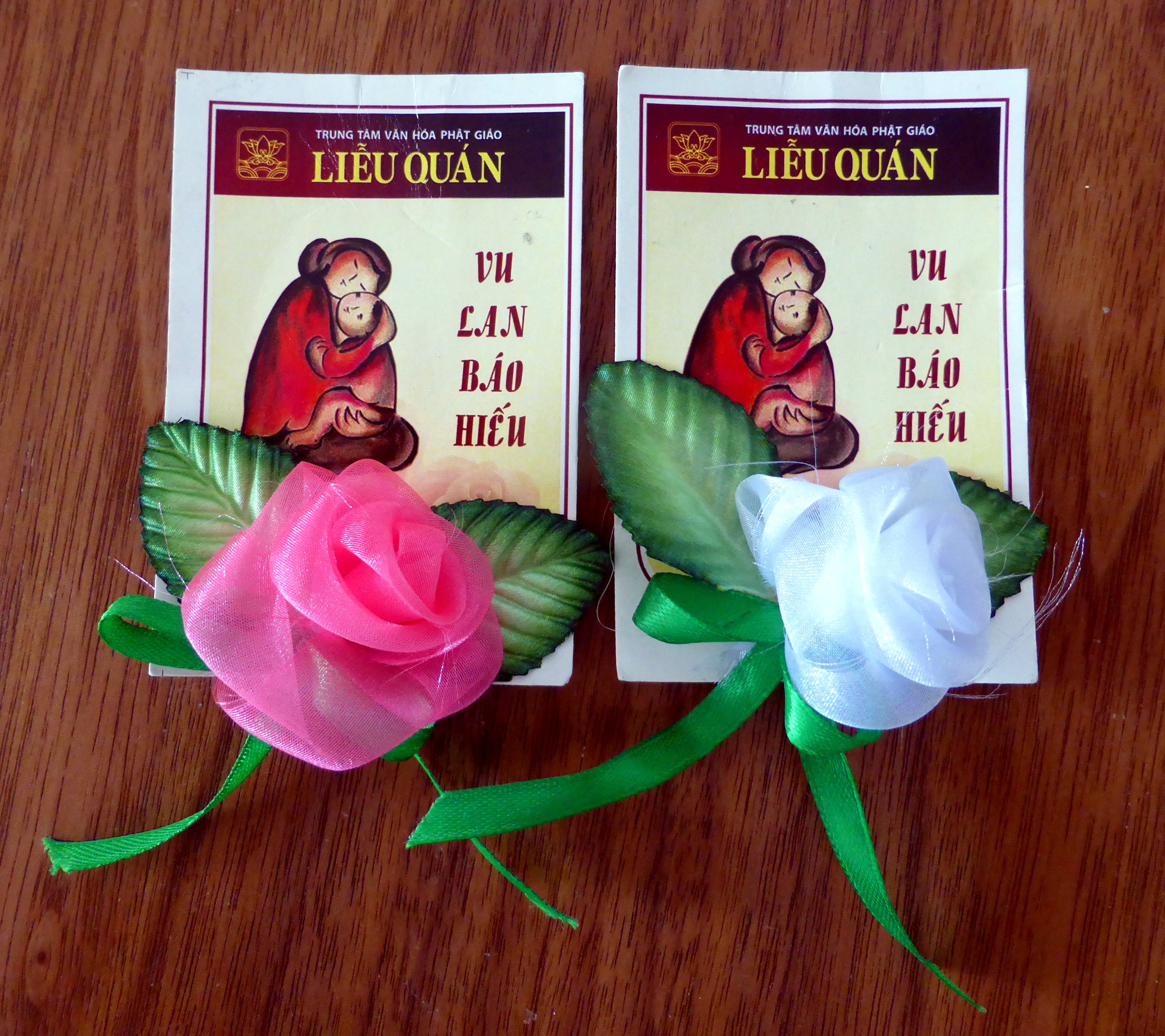 A white and red rose issued to guests at the Ghost Festival (Vietnamese: Tết Trung Nguyên) service at the Lieu Quan Buddhist Cultural Center (Vietnamese: Trung tâm Văn hóa Phật giáo Liễu Quán), Huế, Vietnam in September 2017.